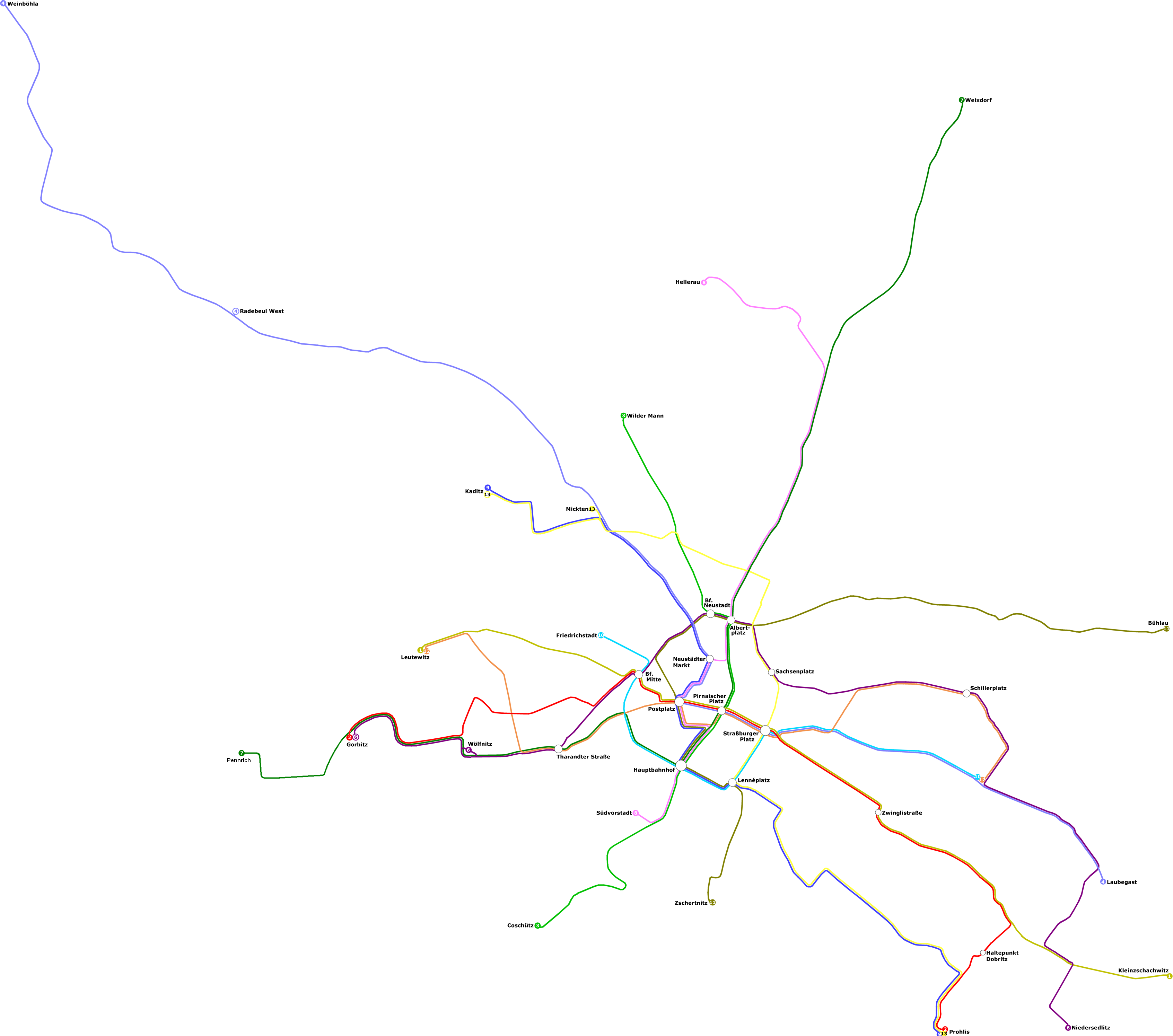 topographic map of the light-rail system in Dresden. Course of lines and major stations